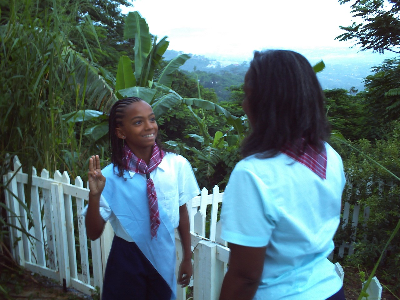 first Girl_Scouts_of_Jamaica promise ceremony